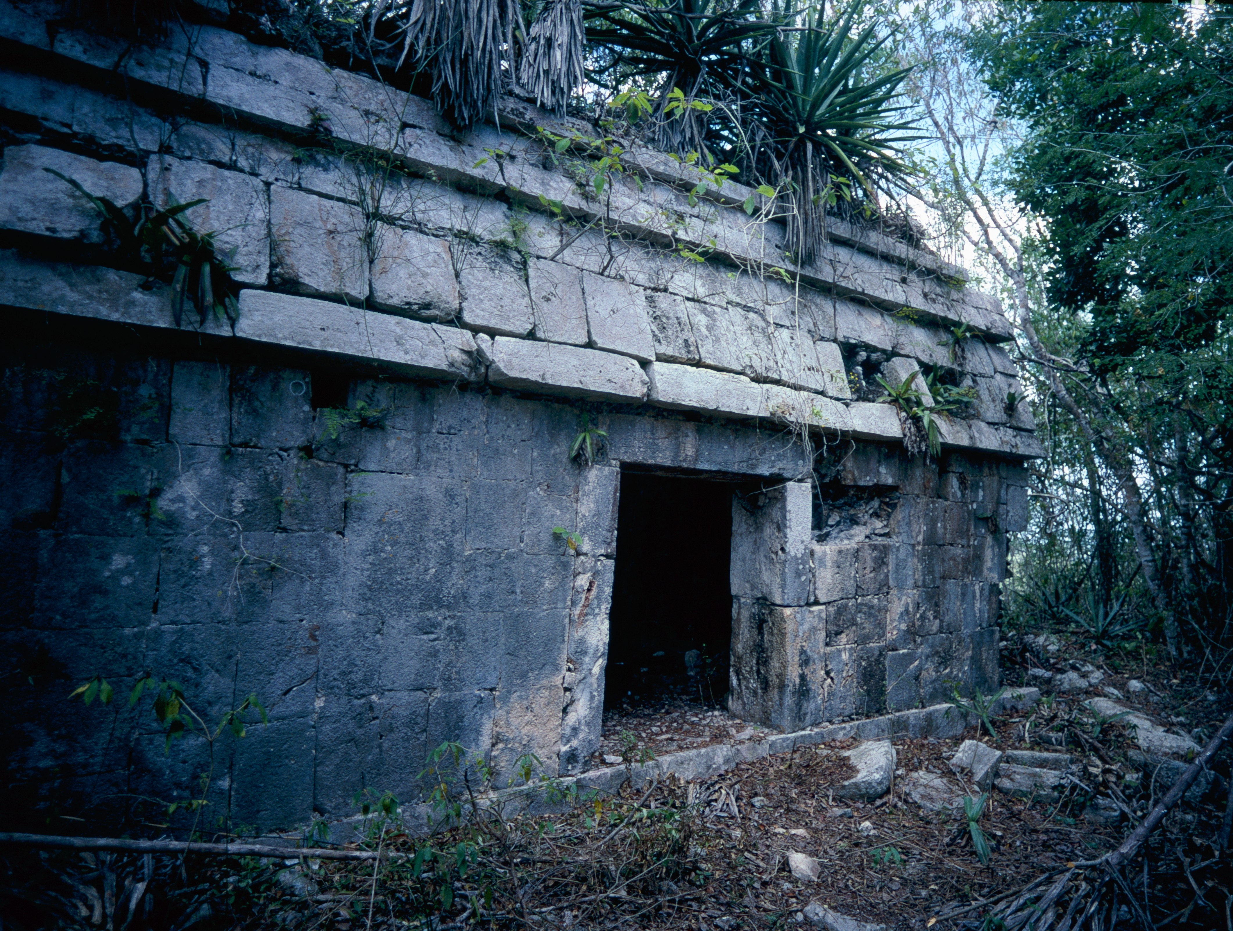 Xbalché, Yucatan, Mexico: building 1